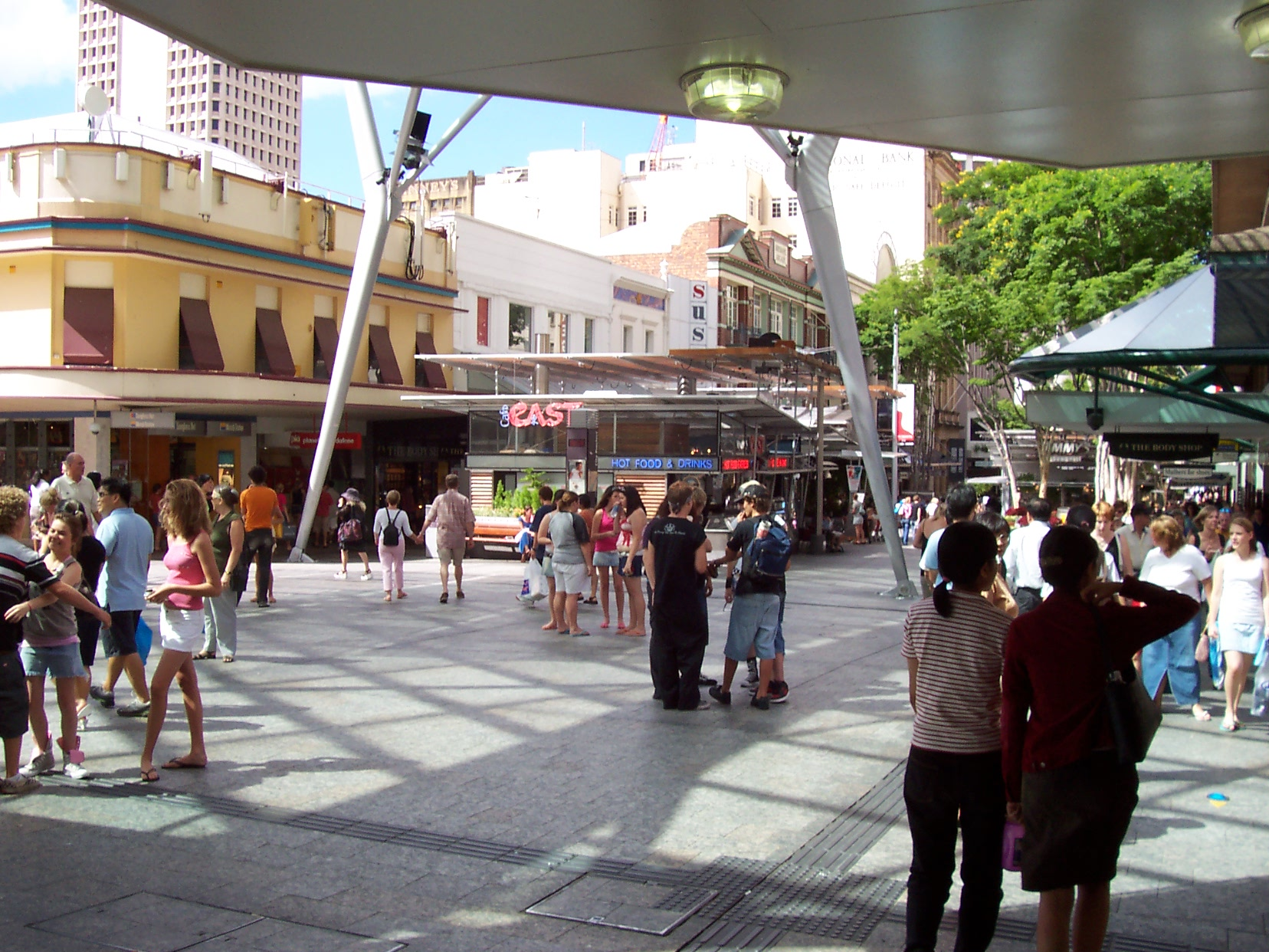 Picture of Queen St Mall taken by myself on the 7th of February, 2004.